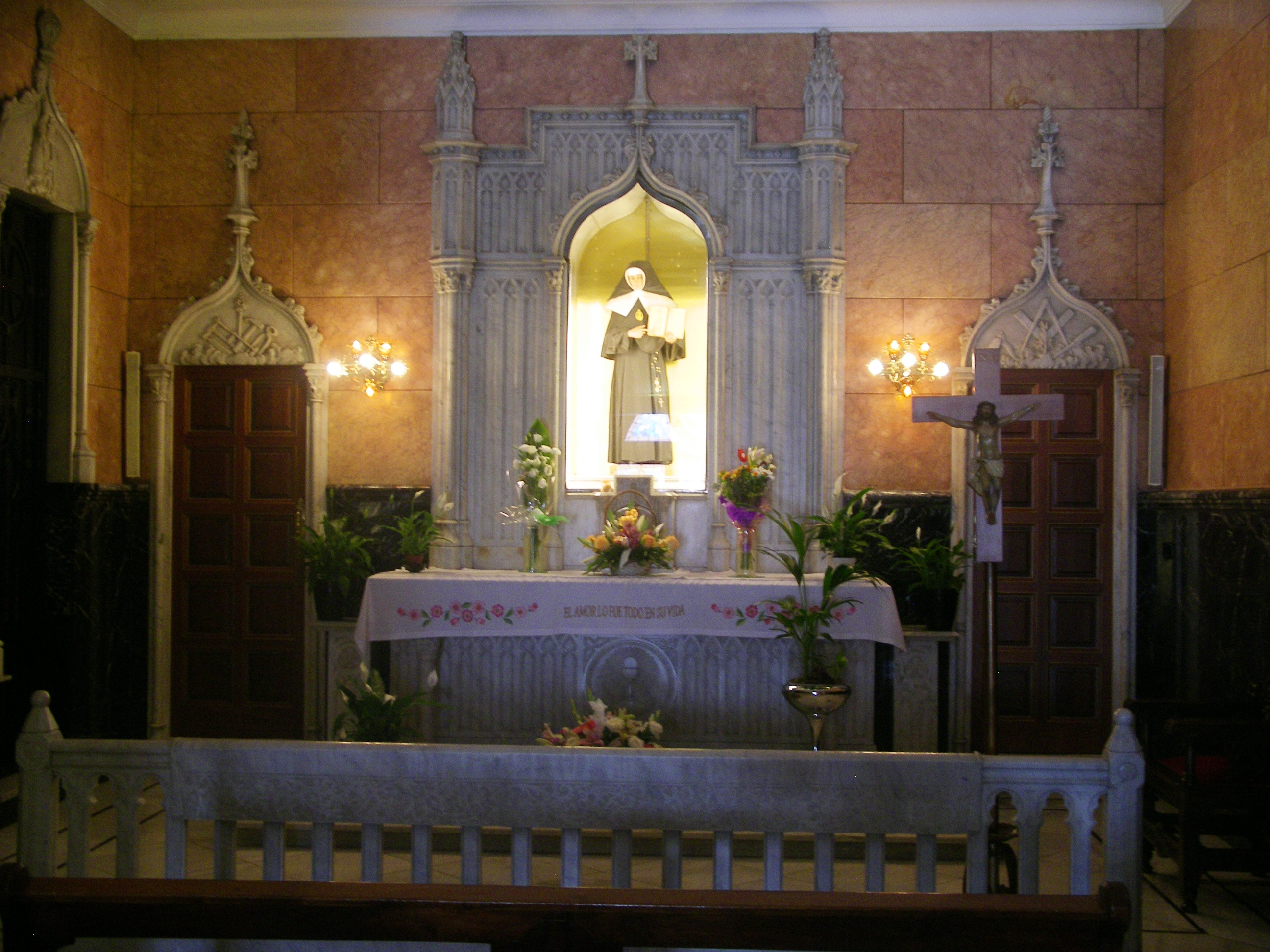 Chapel with the tomb of Blessed Josefa of Saint Joseph (Pérez Florido), at the Sanctuary of Sant Josep de la Muntanya, Barcelona, Spain